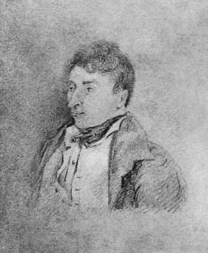 Drawing of the poet and linguist John Leyden by Captain Elliot, made in 1811.